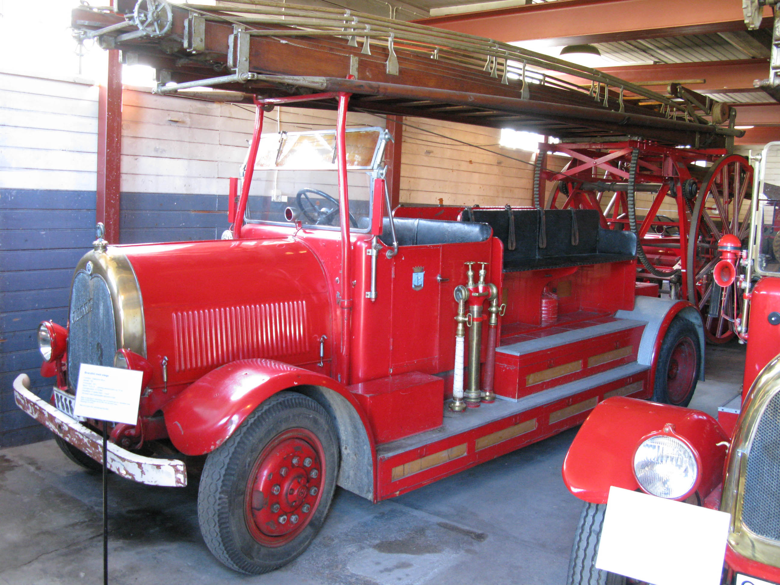 1931 Tidaholm T6L fire engine.Location: Tidaholms Museum